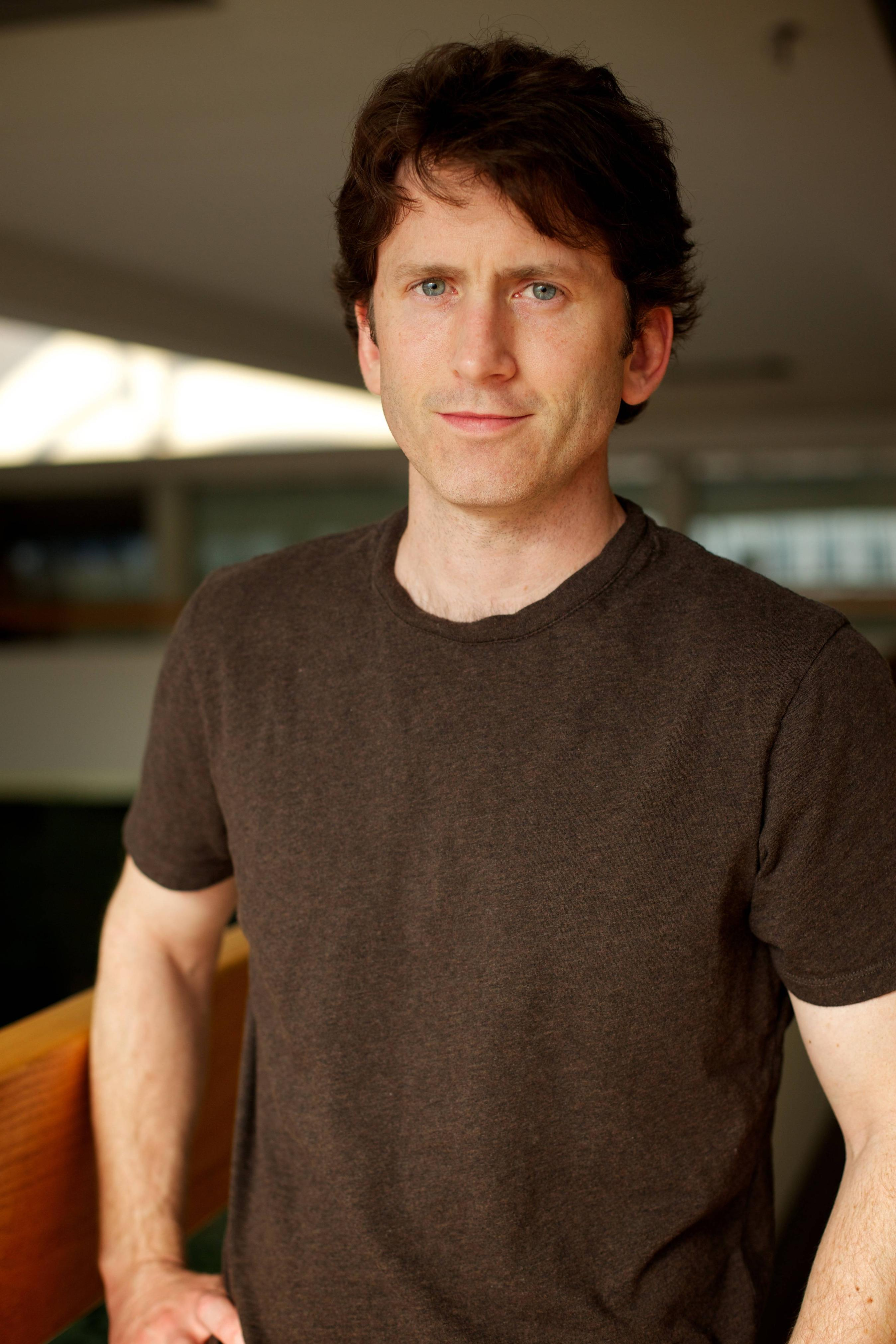 Todd Howard of Bethesda Softworks, 2010